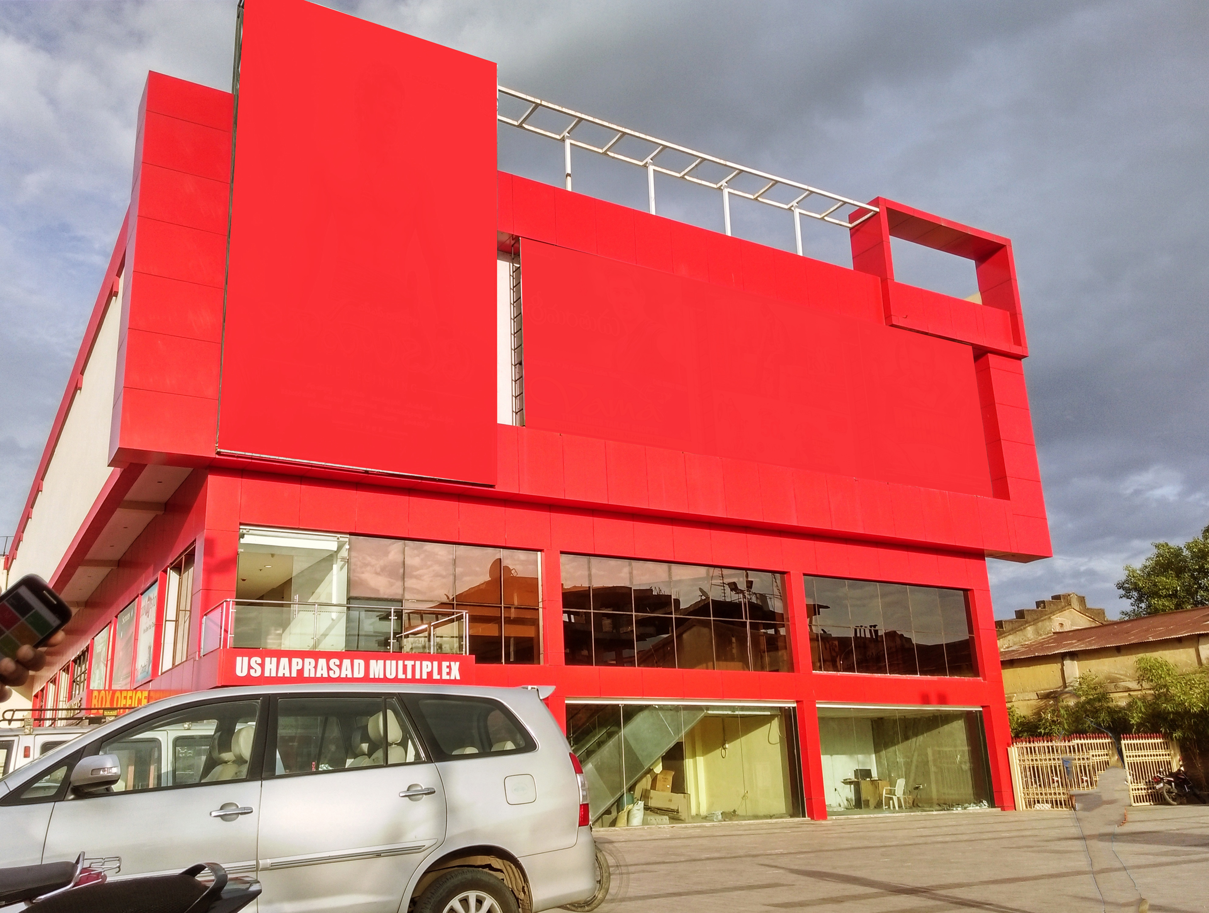 Asian Cinemas Usha Prasad Multiplex is a 3D-triple screen theater situated on Azam Road of Shivaji Nagar area, Nizamabad.